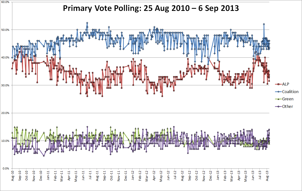 This is a graph of primary vote polling done by Essential Research, Galaxy Research, Newspoll, Nielsen and Roy Morgan Research for the Australian federal election to be held in 2013. Polling covers the period 25 August 2010 to 1 April 2013,and the graph was created using Microsoft Excel.